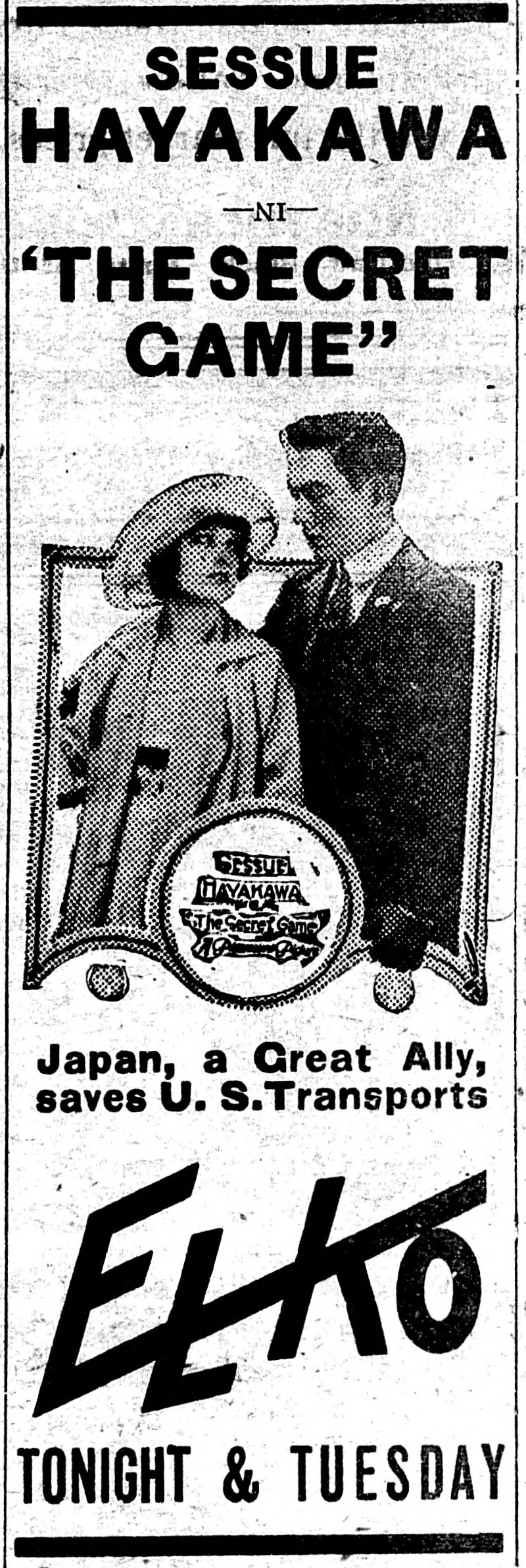 The Secret Game is a surviving 1917 silent film produced by Jesse Lasky and released through Paramount Pictures. This is a newspaper advert for the film.